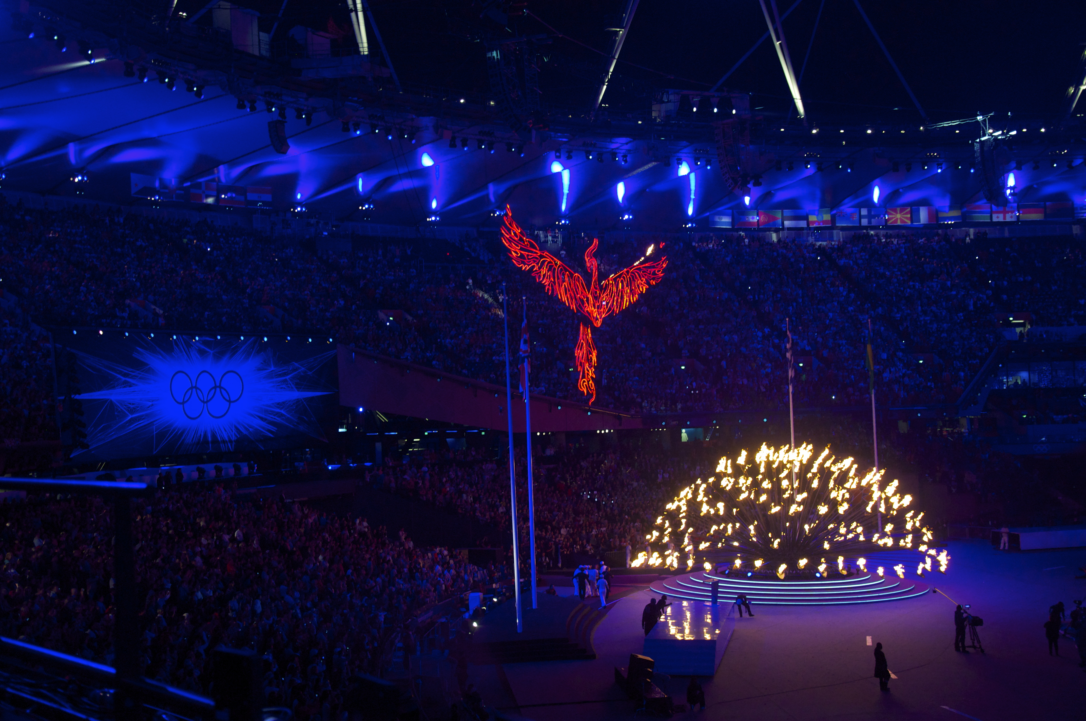 The phoenix behind the flame.